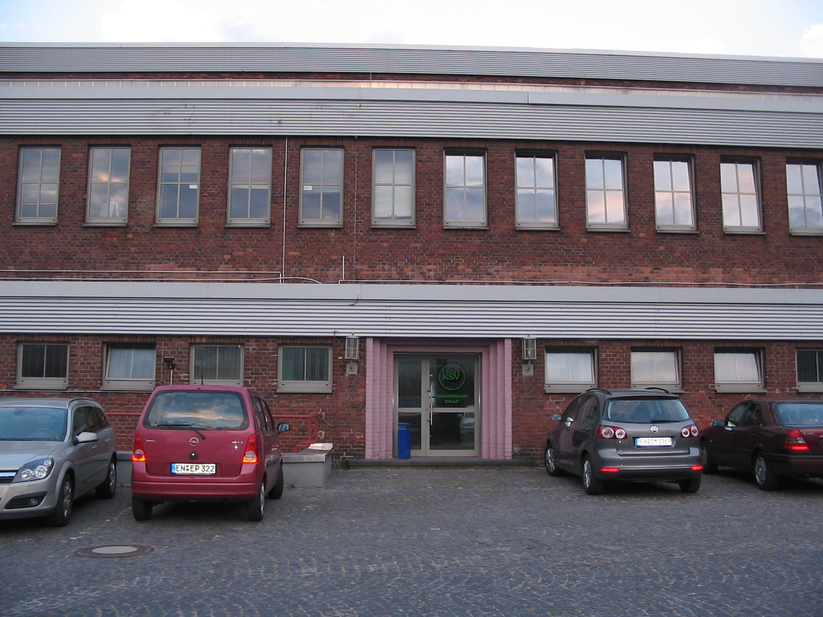 Gym Mannesmannhalle in Witten, Germany